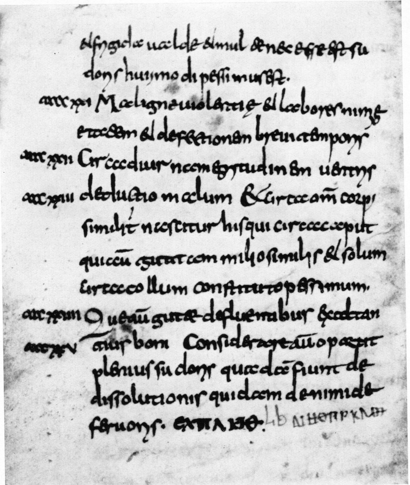 Corpus Hippocraticum, end of Aphorisms (attributed to Hippocrates). Modena, Archivio Capitolare, O.I.11, fol. 36v.